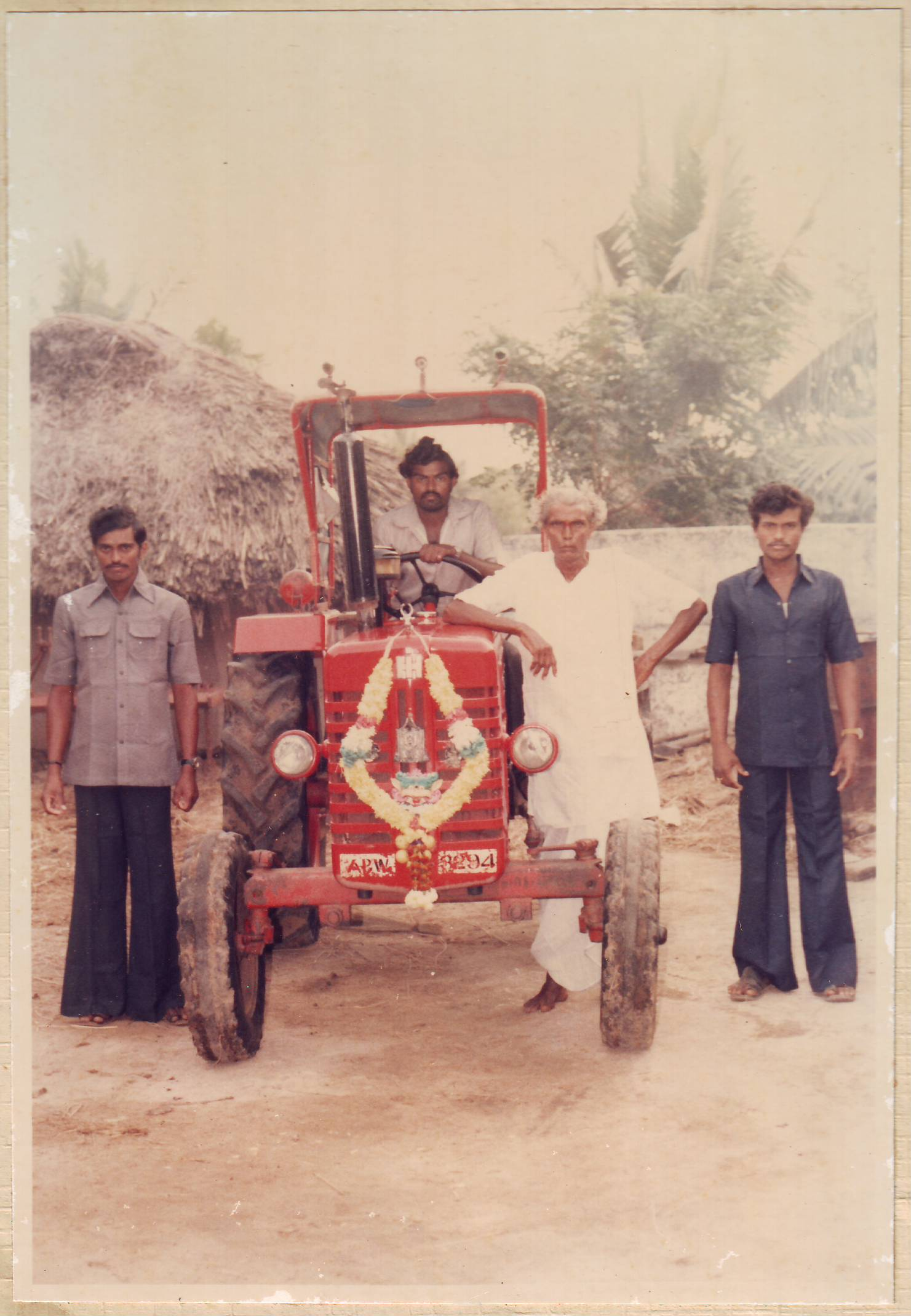 Seerla Basavaiah and his sons Vara Prasad, Ramanjaneyulu, Bhaskara rao